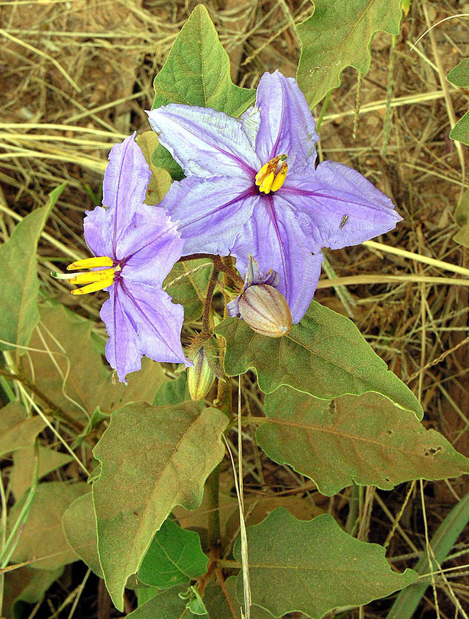 A North American species turned super-weed, and now very widespread. Its fruit has given it the name of Bitter-apple. It is toxic to livestock, and in Africa it is known as Satansbos (Devil's bush). Katsekera area, Malawi